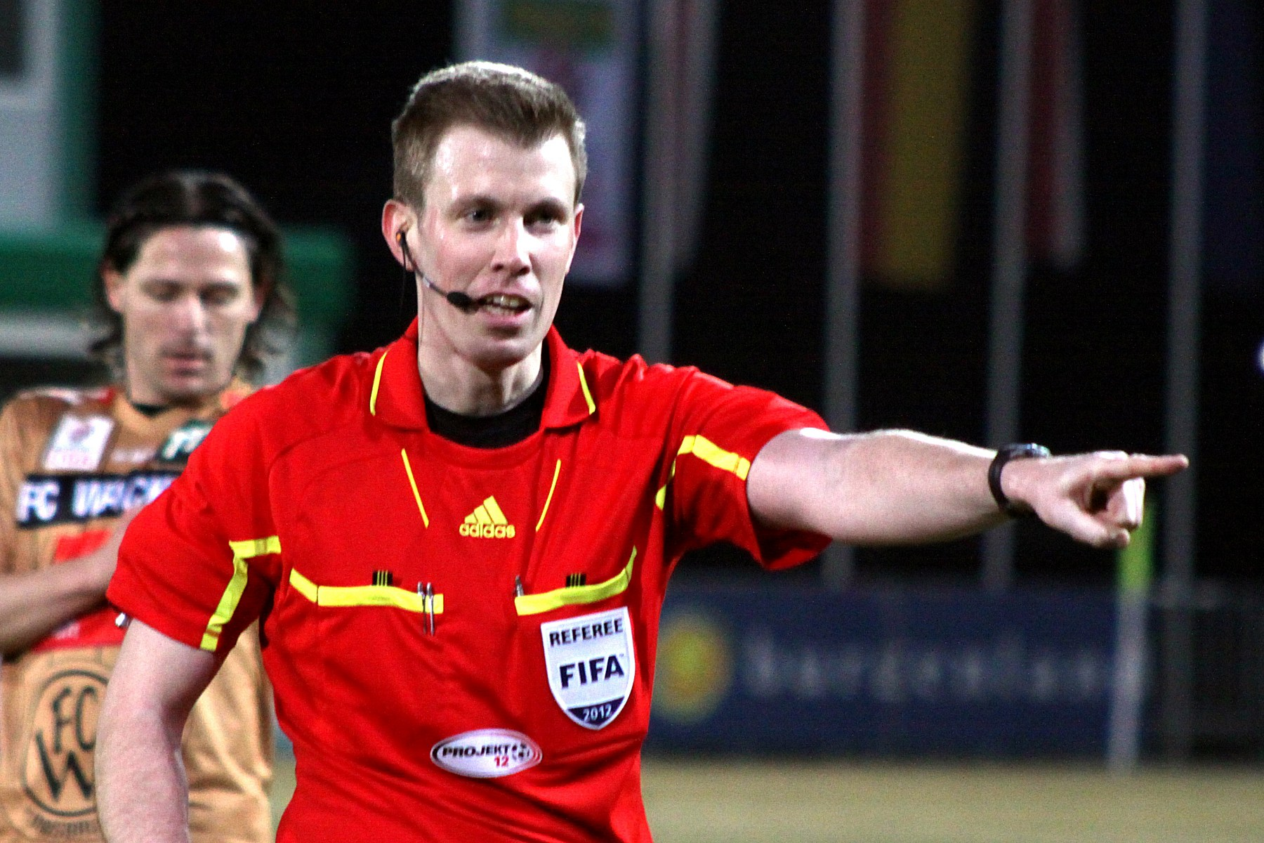 Markus Hameter - Referee (association football) of Austria